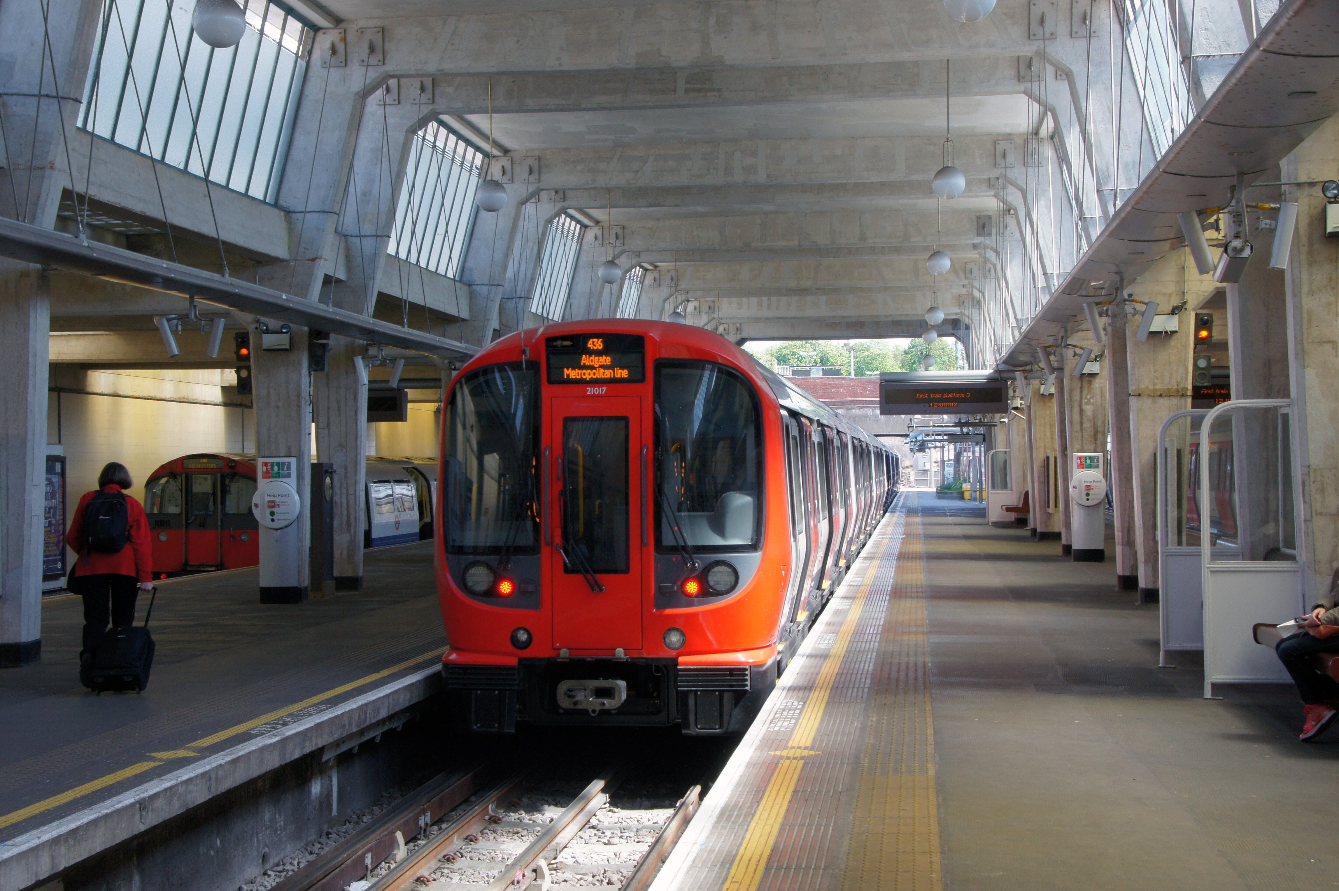 Uxbridge Underground Station, relocated in 1938, designed by Charles Holden. The stained glass windows are by Erwin Bossanyi, and are of Middlesex, Buckinghamshire and Uxbridge UDC. The wheels are by Joseph Armitage, and are depicting upturned wheels and springs. The fag/cigarette machine is a wonderful survivor. The forecourt used to be a trollybus turning circle. More at